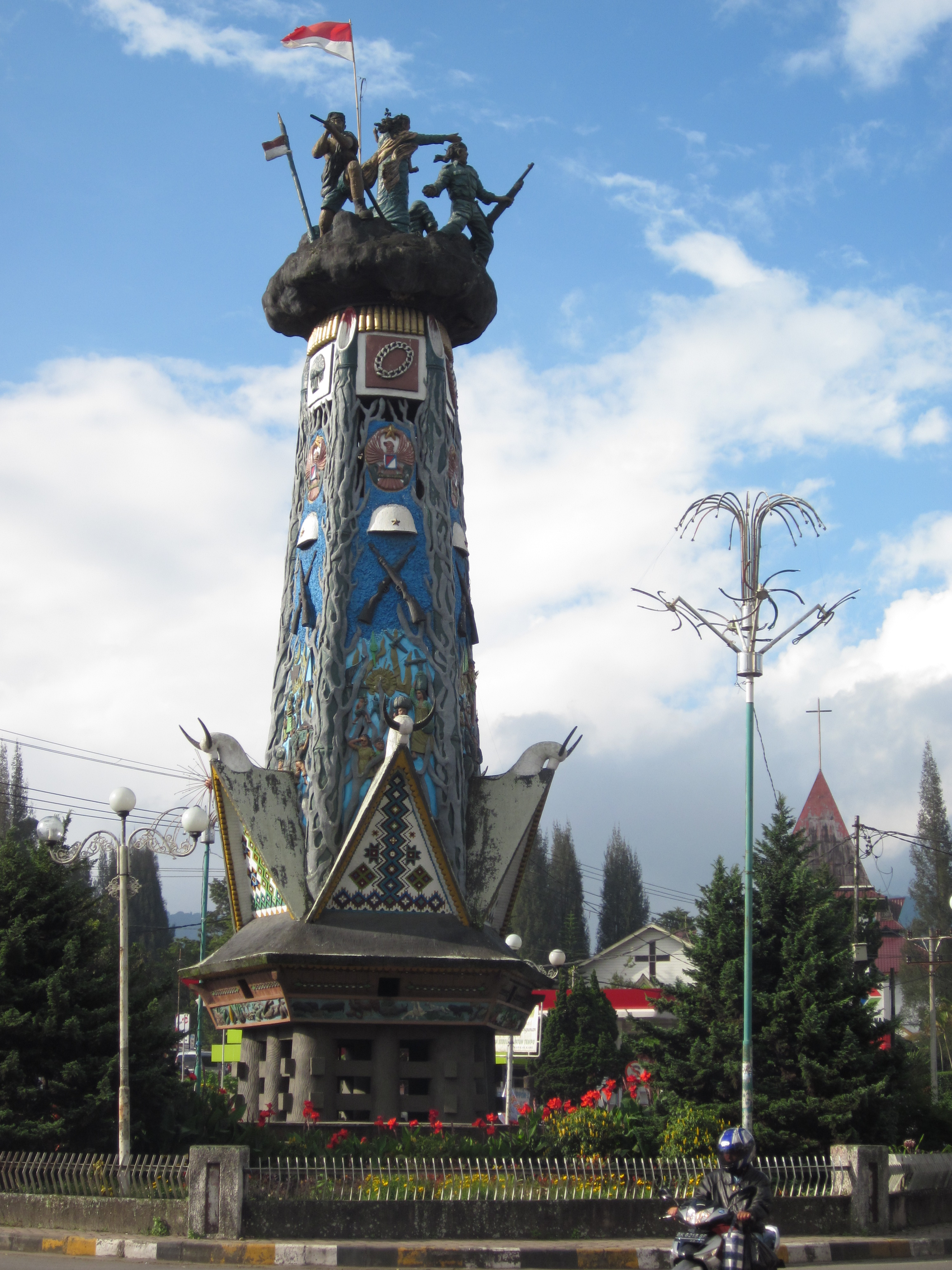 Brastagi city center